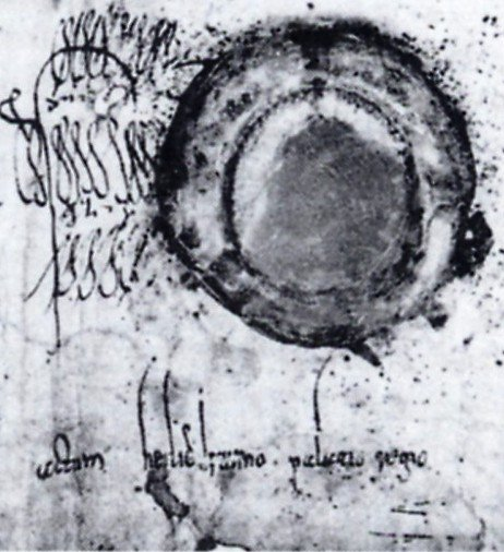 Deed of king Louis the German from 841, given in Heilbronn. Detail mentioning Heilbronn